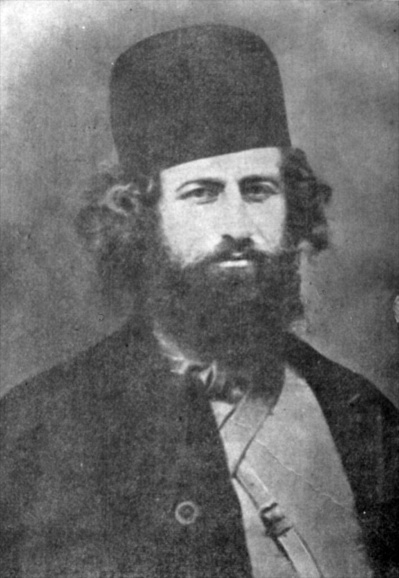 Mirza Kuchek Khan's last picture.